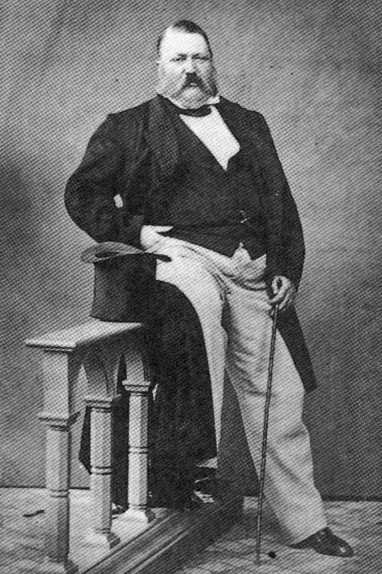 Finnish architect Georg Theodor Chiewitz.